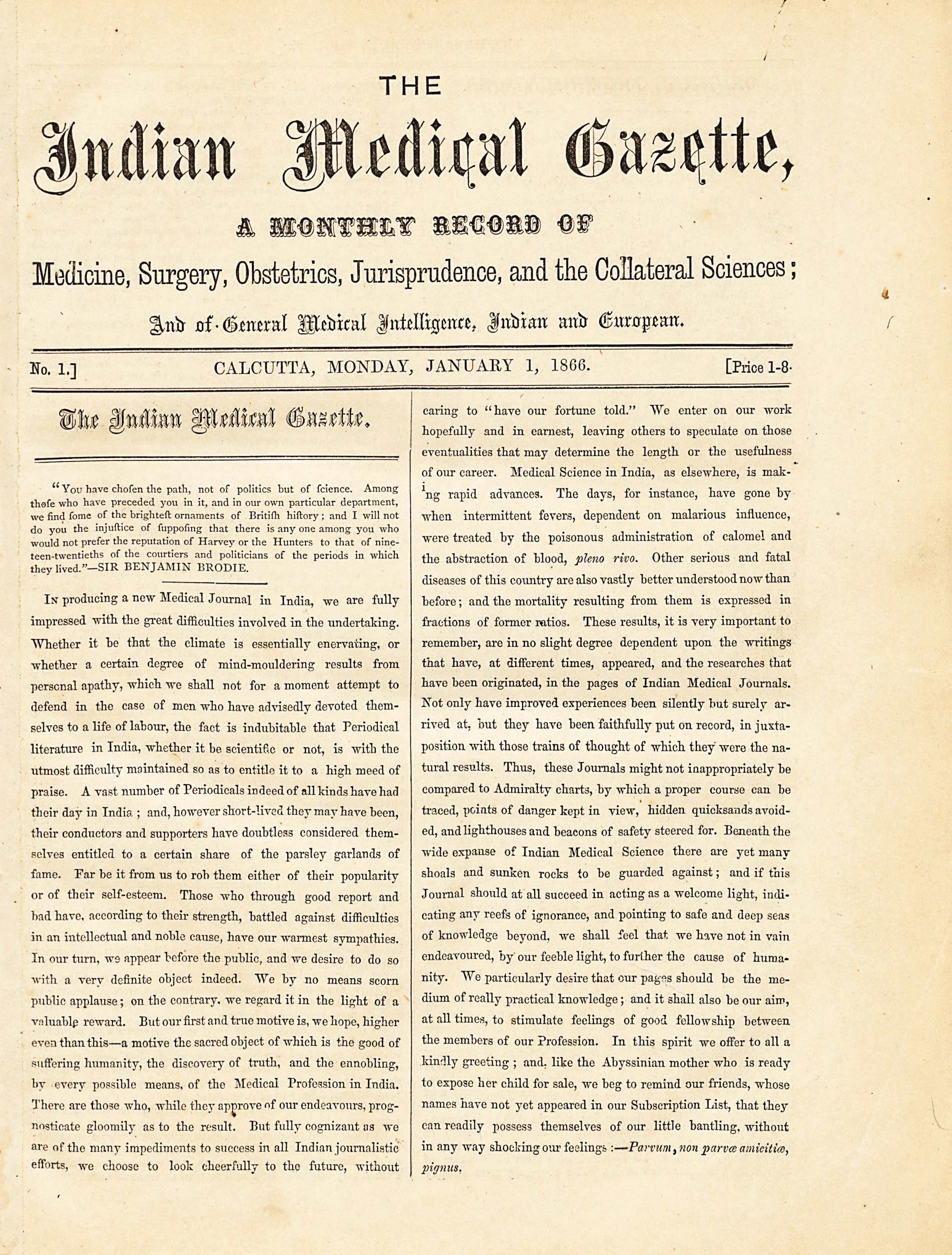 The Indian Medical Gazette No. 1, 1 January 1866